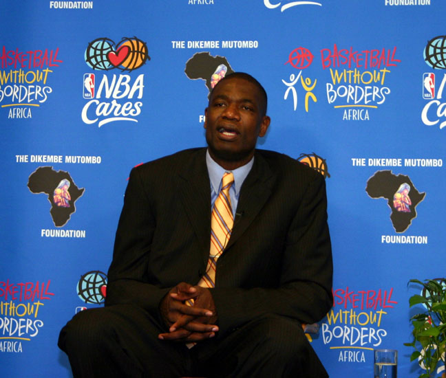 Dikembe Mutombo, speaking during a press briefing at the New York Foreign Press Center.